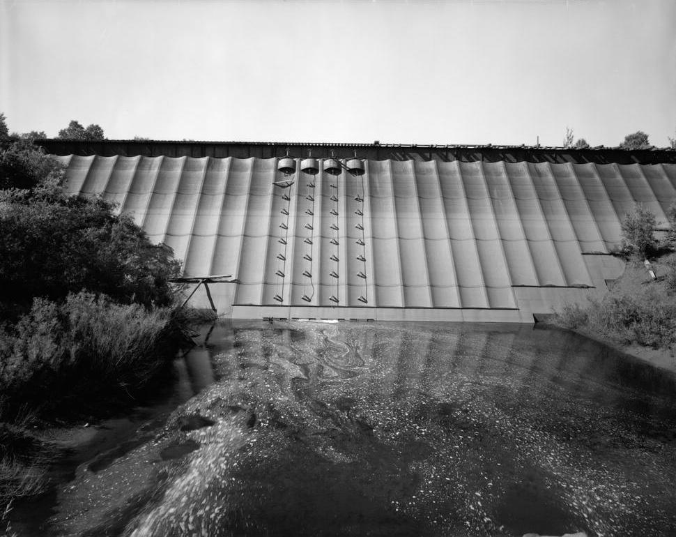 This image was found at the Library of Congress HAER archive entry with the original caption: "VIEW LOOKING AT UPSTREAM SIDE OF DAM. HAER MICH,31-BEHIL,1-1" It is a part of the Historic American Engineering Record collection of photos. Redridge Steel Dam, Houghton County, Mi, image taken by Jet Lowe, HAER photographer, in July 1978.